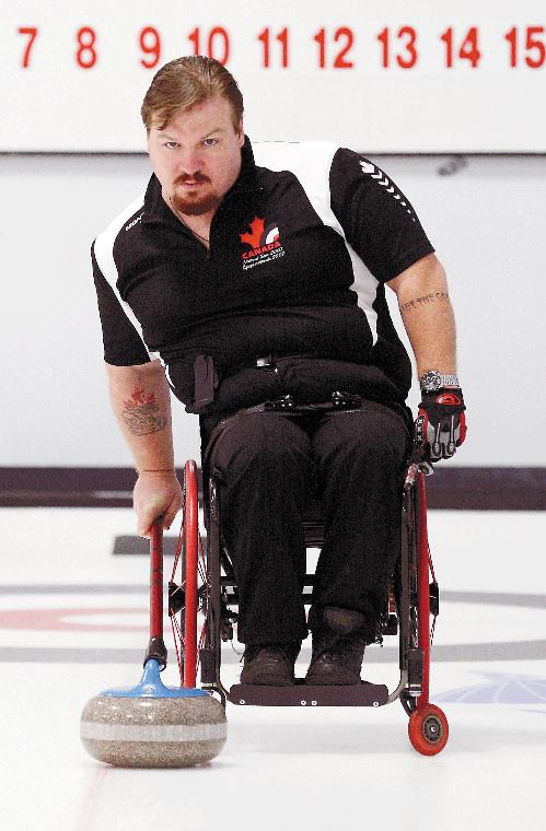 Chris Daw curling